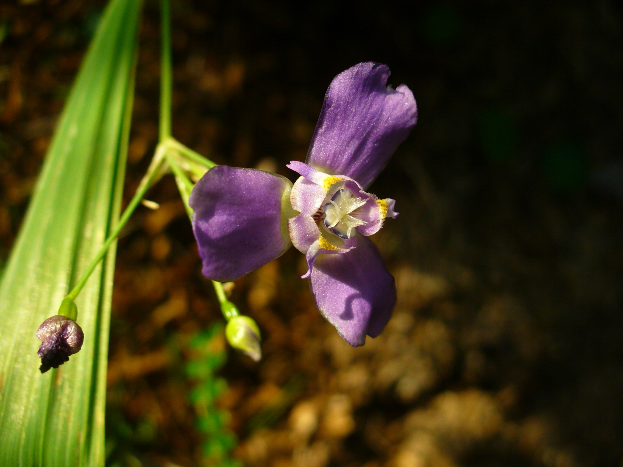 cultivated, South Miami, Florida, USA. Small-flowered species from Argentina. From Plant Delights. Flower is about 2 cm across.